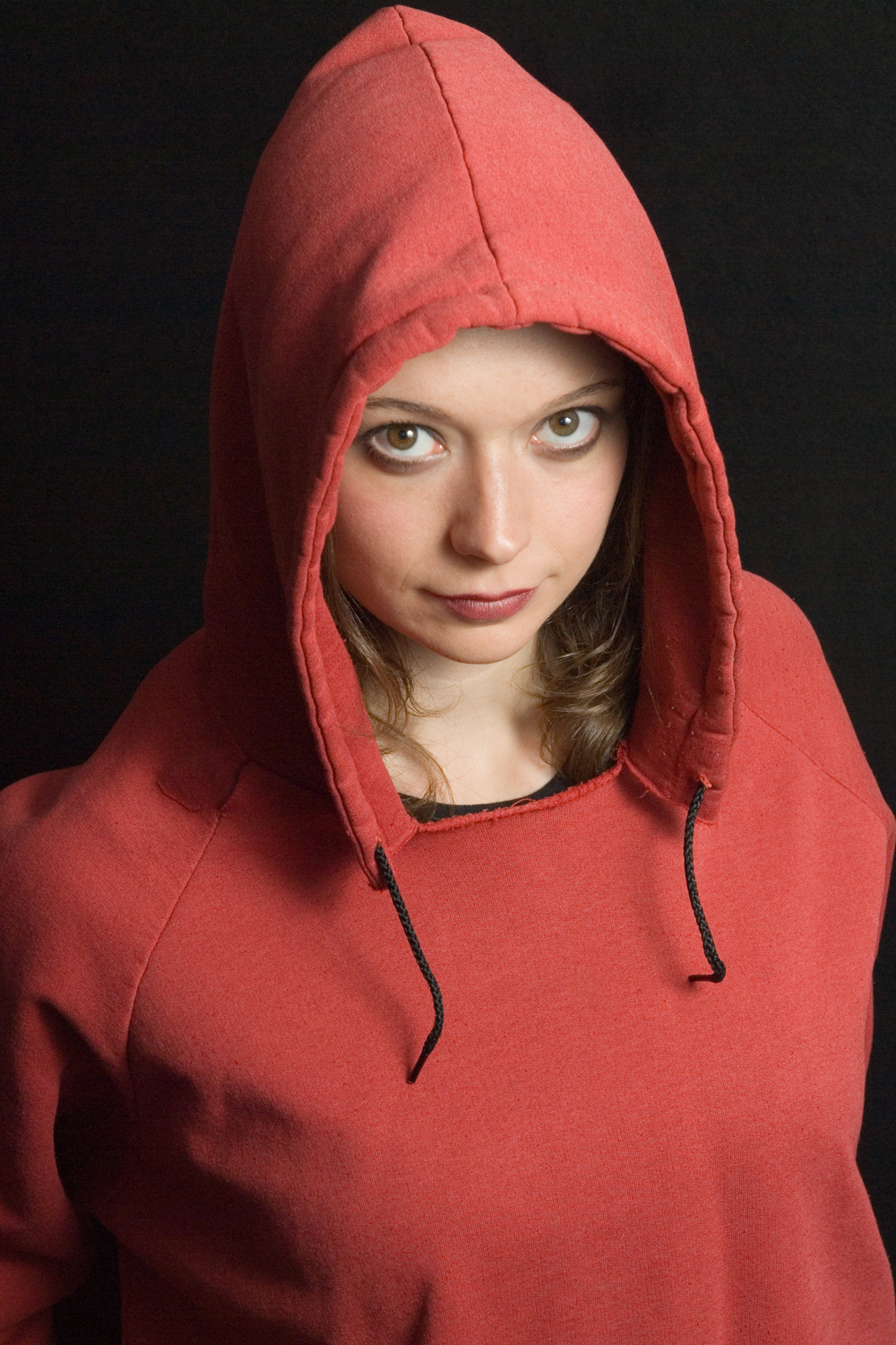 Western Canadian model Abby Taylor wears a traditional hoodie. Photo by Chuck Szmurlo taken June 28, 2008 with a Nikon D200 and a Nikon 28-70 f2.8 lens.